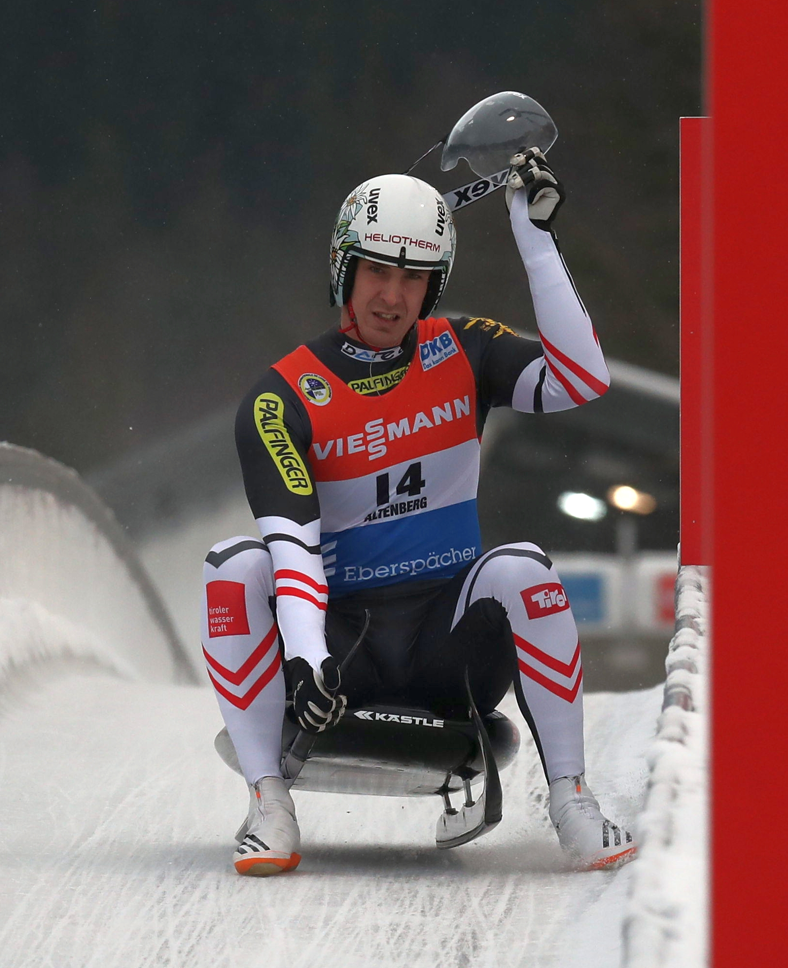 Luge World Cup Men 2017/18 in Altenberg: Reinhard Egger